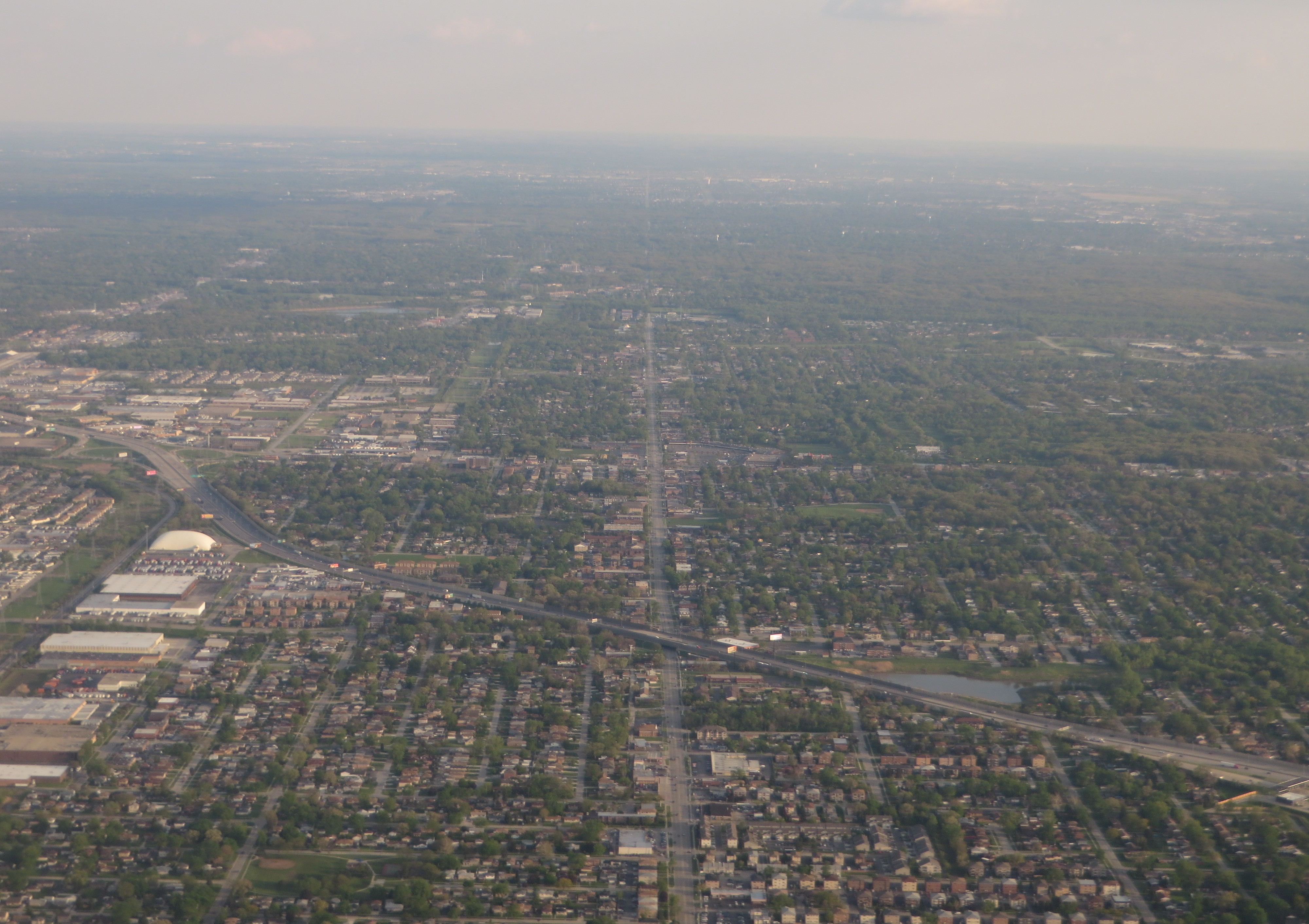 Hickory Hills is a city in Cook County, Illinois, United States. The population was 14,049 at the 2010 census.